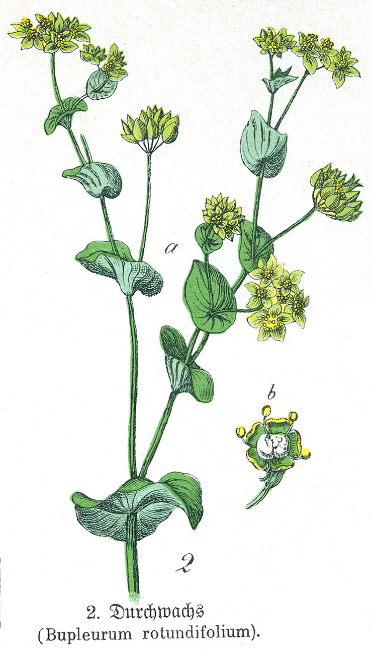 Bupleurum rotundifolium, illustration from «Naturgeschichte des Pflanzenreichs», table XVI (fragment)